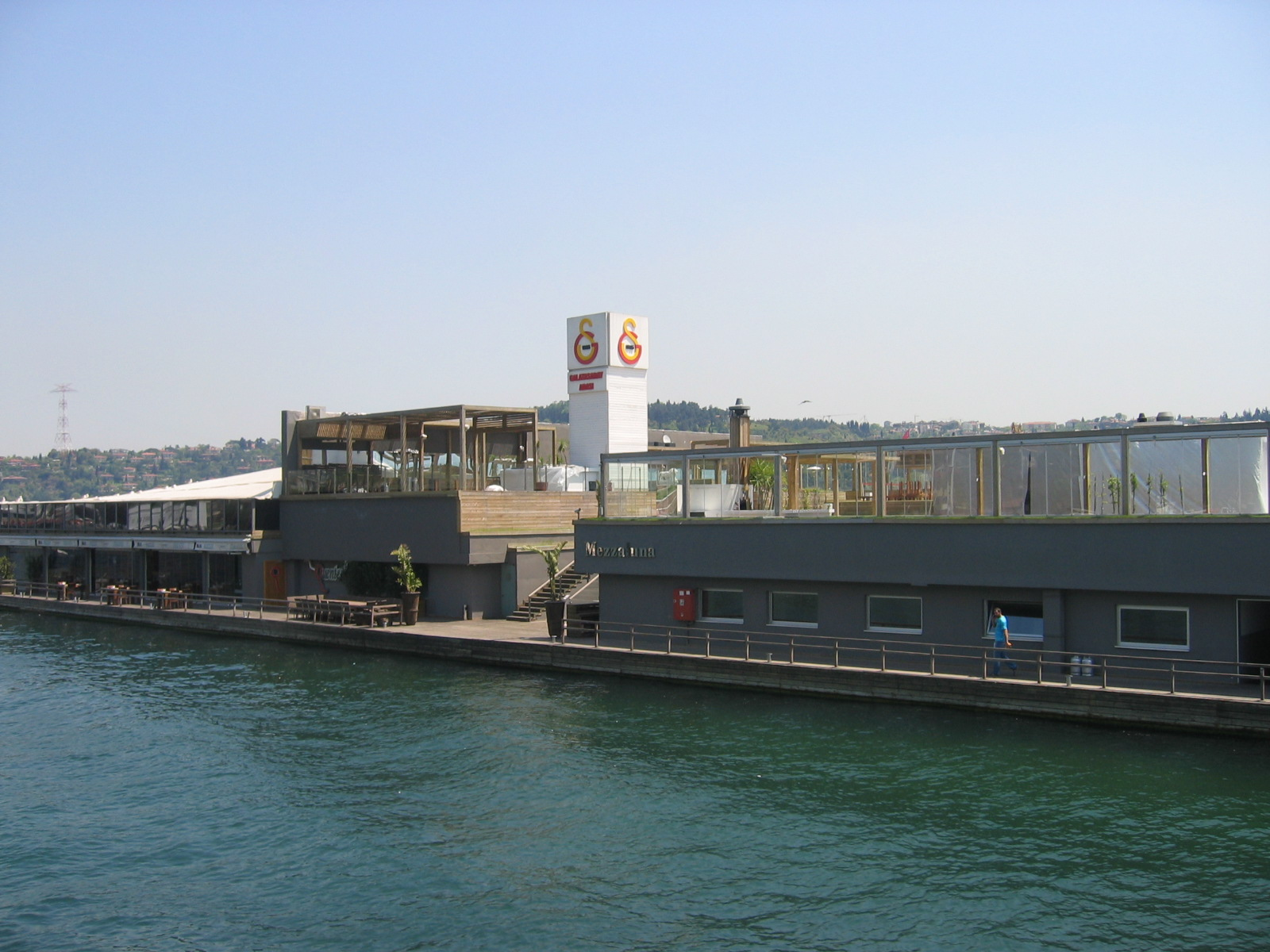 Galatasaray Island